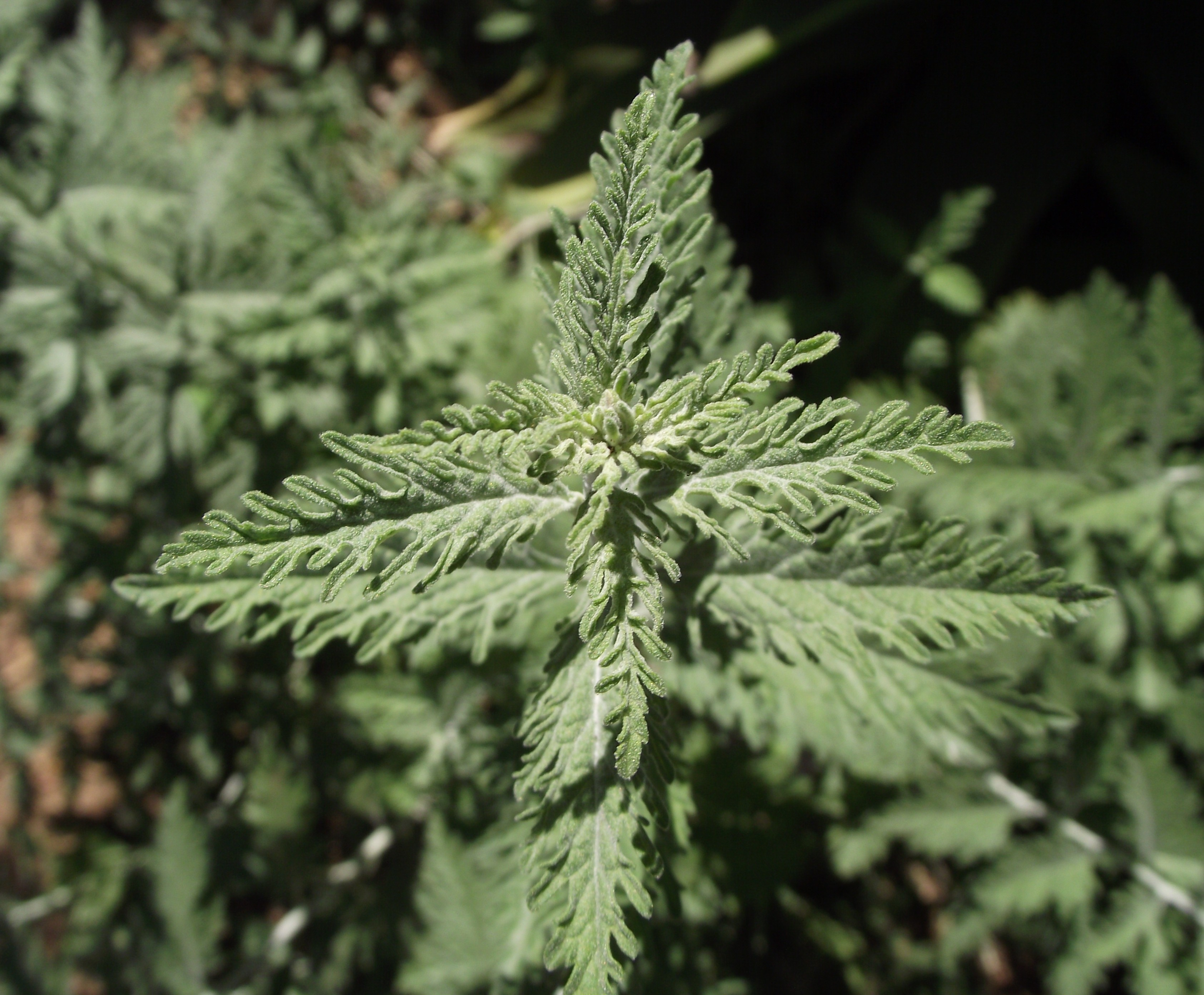 Perovskia atriplicifolia at the Los Angeles County Arboretum, Arcadia, California, USA. Identified by sign.